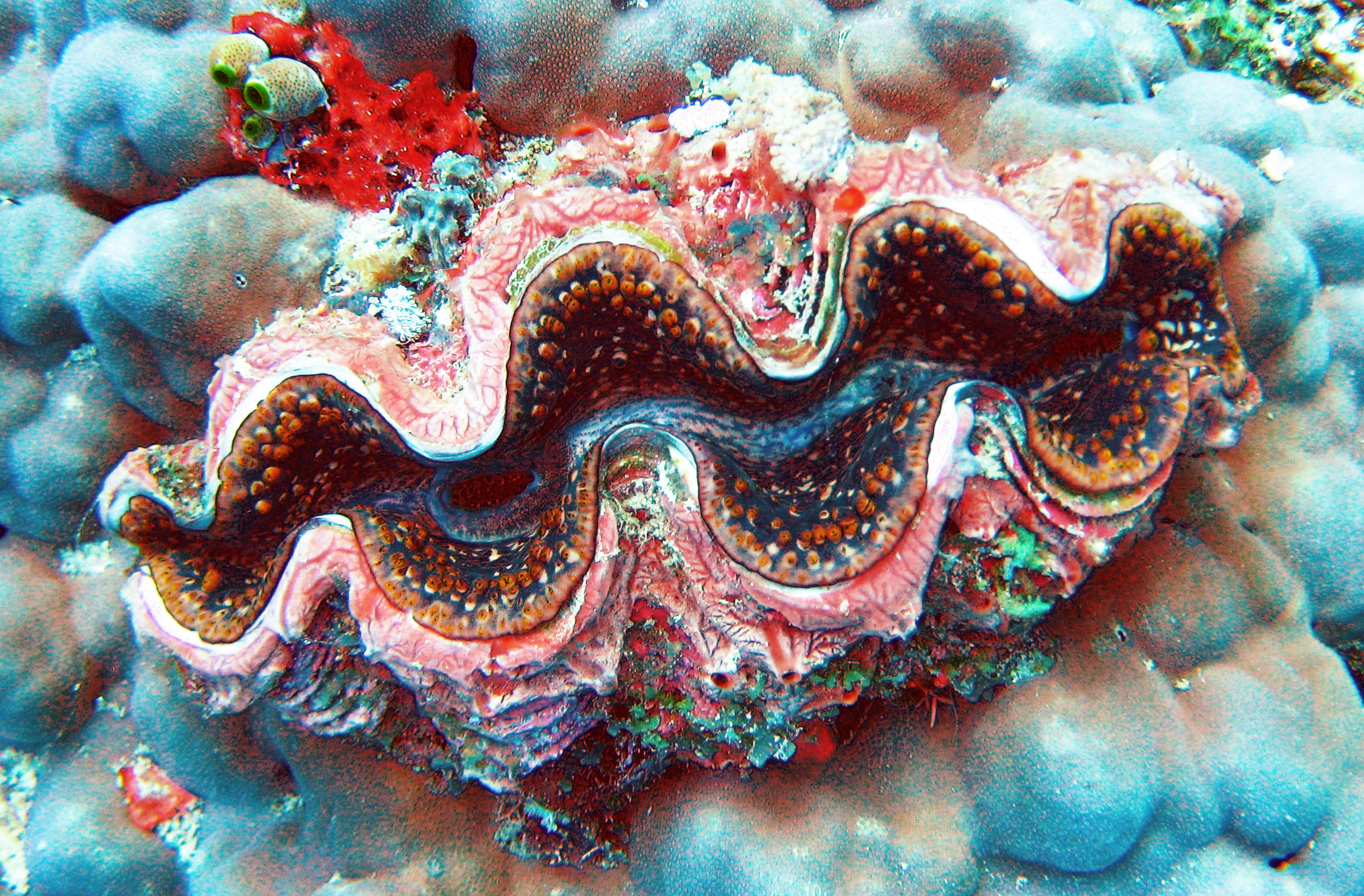 Diving, Pemba, Tanzania